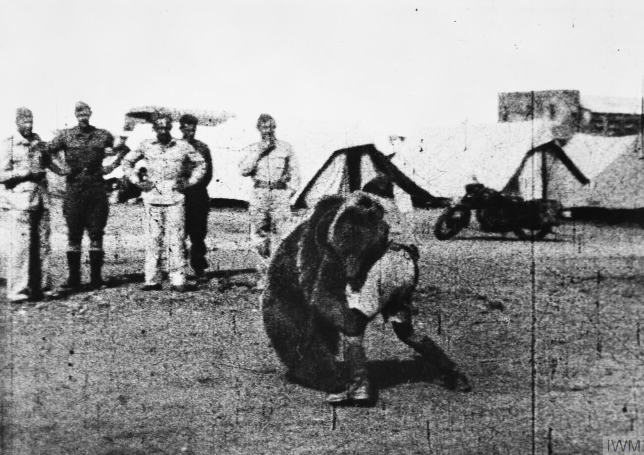 Troops of the Polish 22 Transport Artillery Company (Army Service Corps, 2nd Polish Corps) watch as one of their comrades play wrestles with Wojtek (Voytek) their mascot bear during their service in the Middle East.